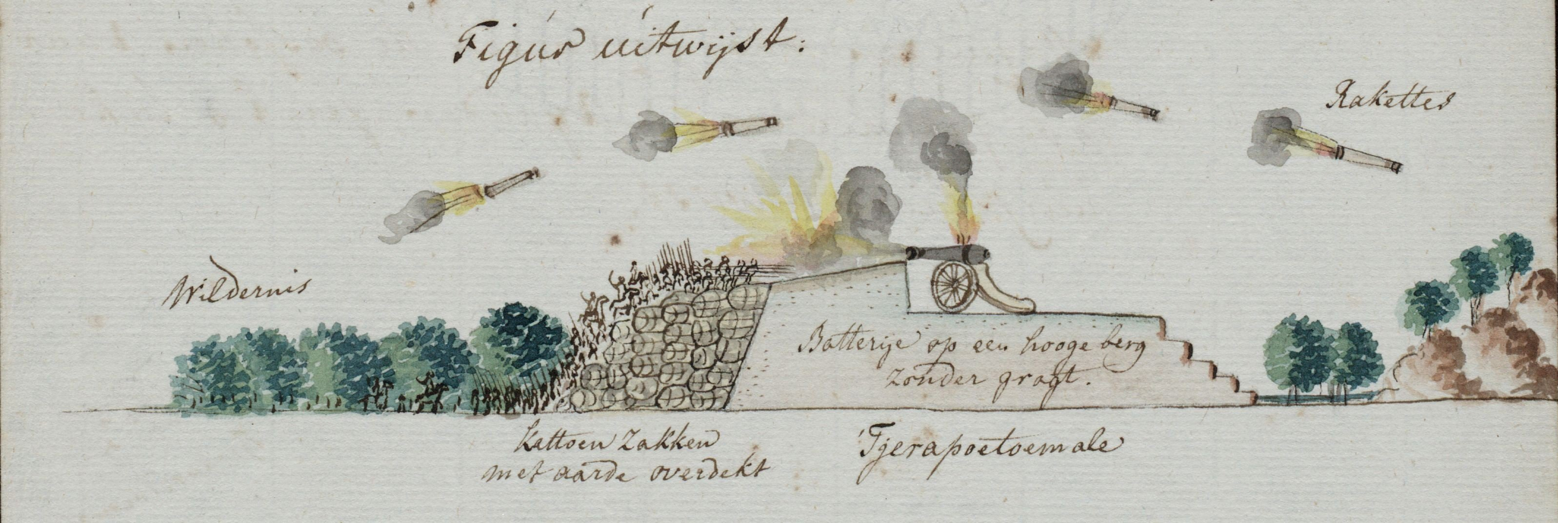 Letter from Commander Johan Gerard van Angelbeek, governor of Ceylon, from Cochin, to Mr. Decker, reporting on the battle between troops of Tipu Sultan and the prince of Travancore on 29 December 1789. Illustration show innovative use of cotton bales to clear the moat and fort walls along with use of rockets. Accession number = NL-HaNA, Aanw. 1st section ARA, 1.11.01.01, inv. No. 1276